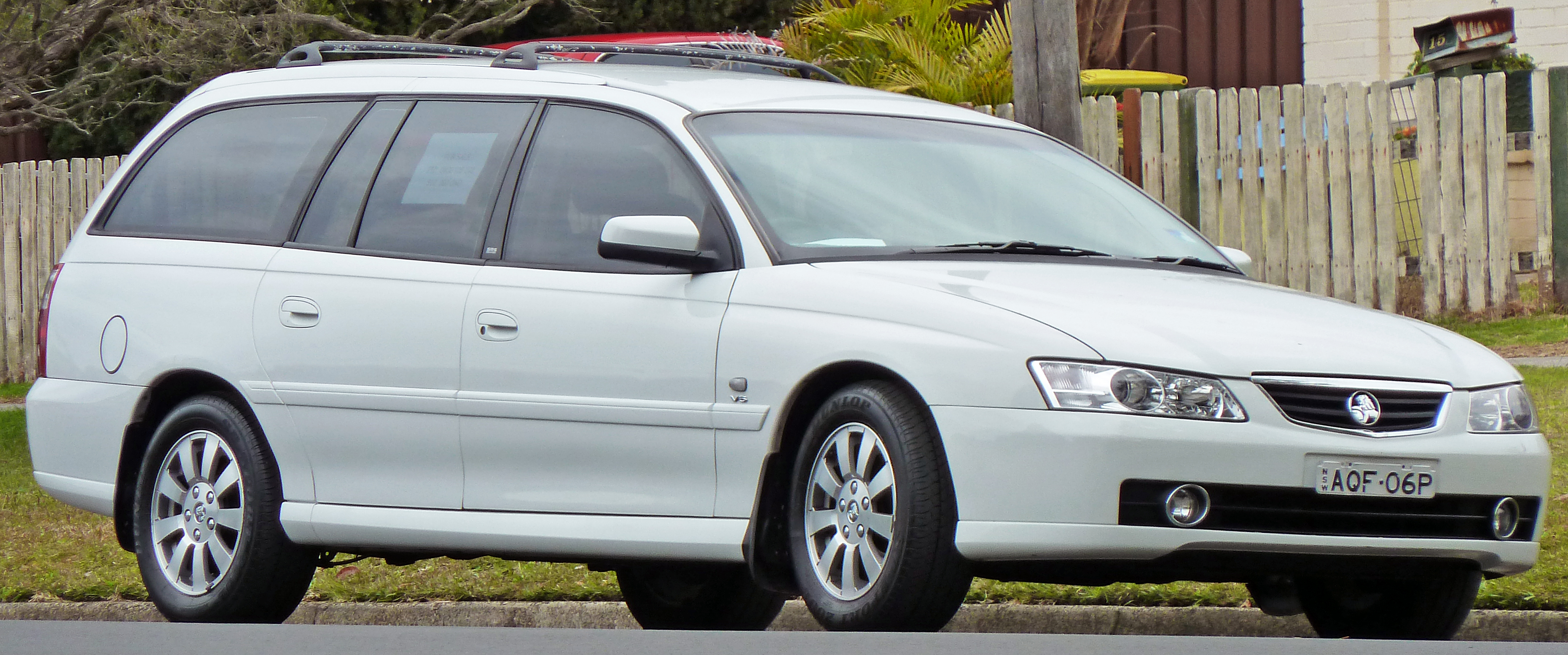 2003 Holden Berlina (VY II) station wagon. Photographed in Gymea Bay, New South Wales, Australia.